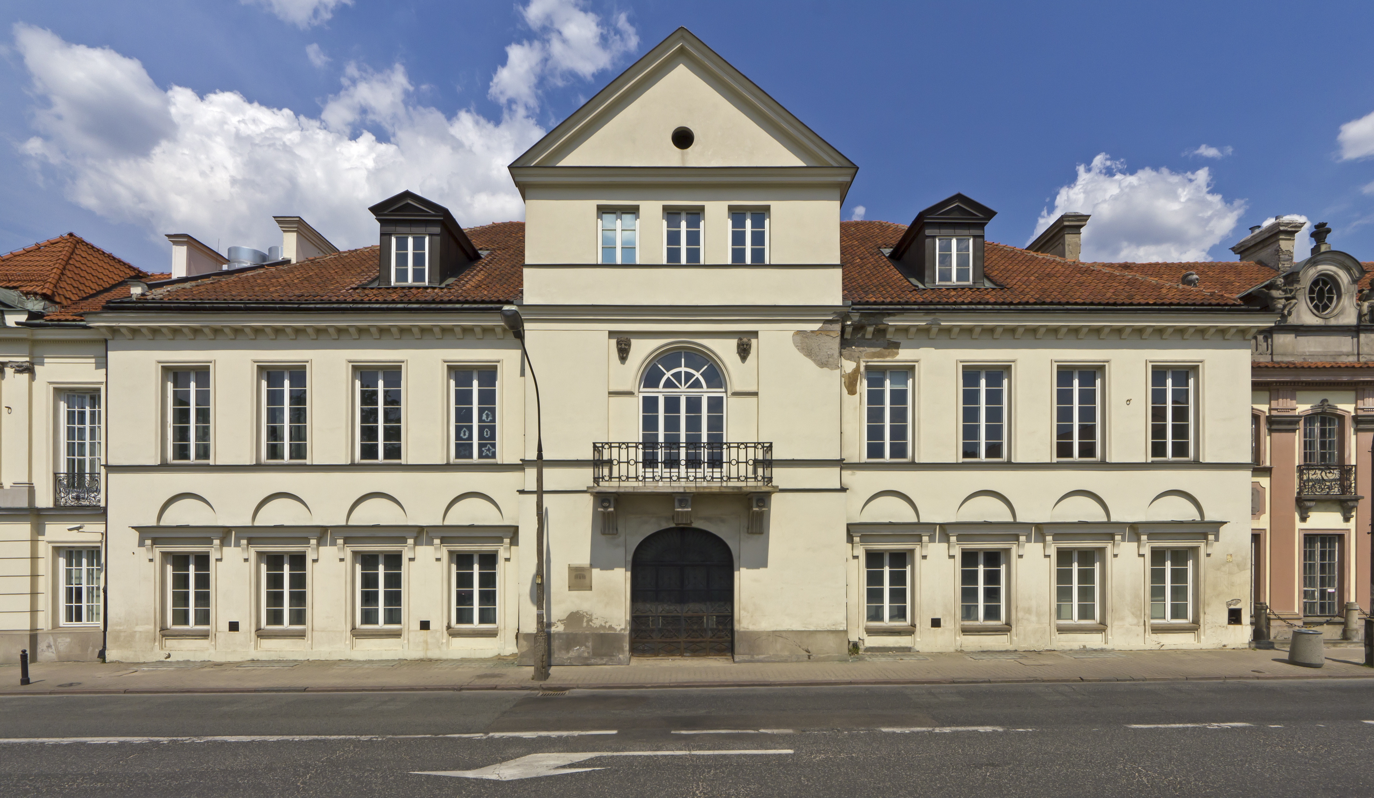 Szaniawski Palace in Warsaw (Poland)